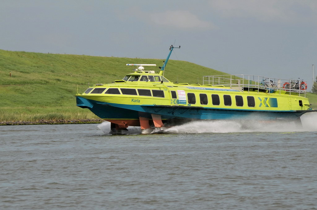 A hydrofoil is a boat with wing-like foils mounted on struts below the hull. As the craft increases its speed the hydrofoils develop enough lift for the boat to become foilborne - i.e. to raise the hull up and out of the water. This results in a great reduction in drag and a corresponding increase in speed.